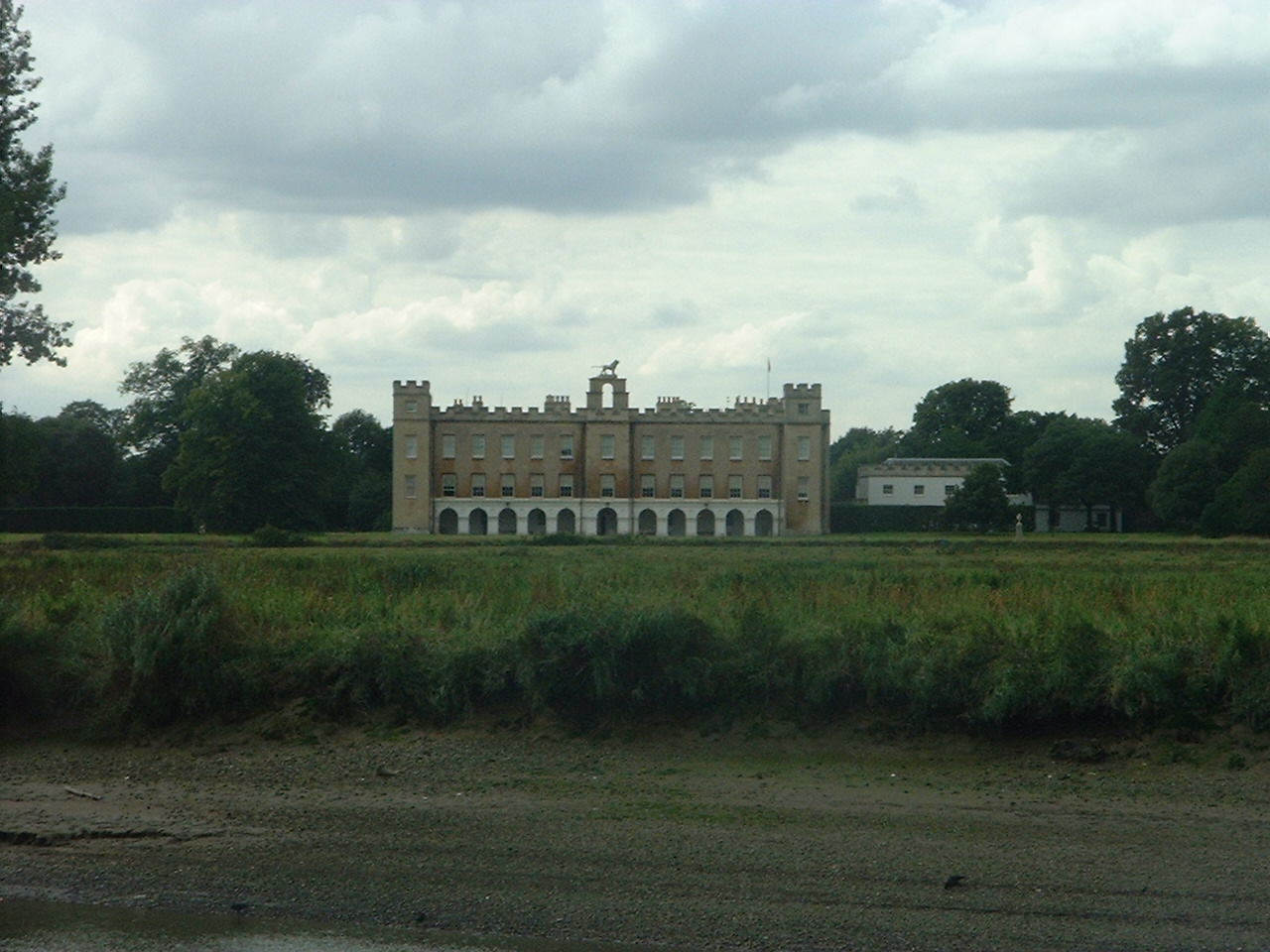 Syon House in London.